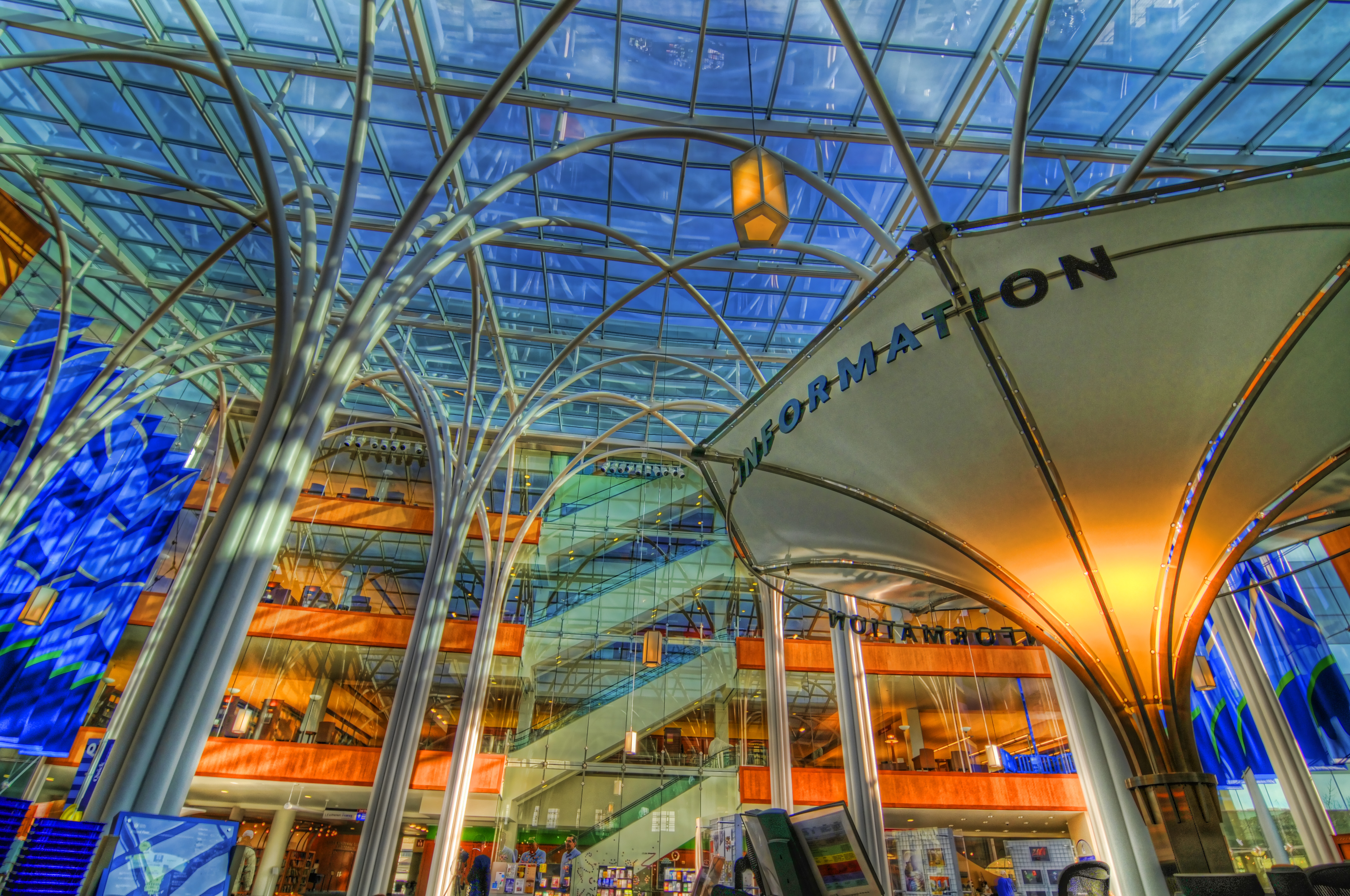 Day 2 of IPC class with John Perez The inside of the Indianapolis public library. instead of explaining the HDR thingy.... I will content myself to state that I applied the WAZAWAZOO process of 5 exposures. :-) ☺☺